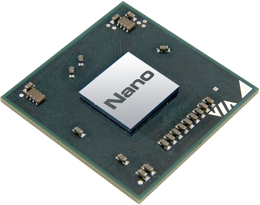 VIA Nano Chip Image (perspective)